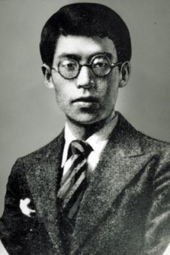 Japanese writer Atsushi Nakajima